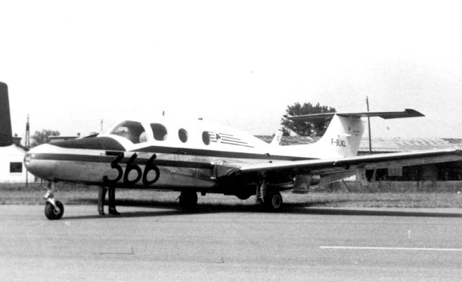 Morane-Saulnier MS-760C Pari III at the Paris Air Show